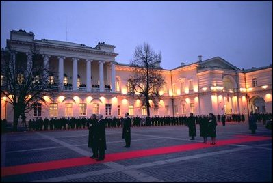 Lithuanian President Valdas Adamkus and President George W. Bush stand at attention during a welcoming ceremony at the Presidential Palace, in Vilnius, Lithuania, Nov. 23, 2002